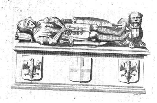 Thomas I of Savoy